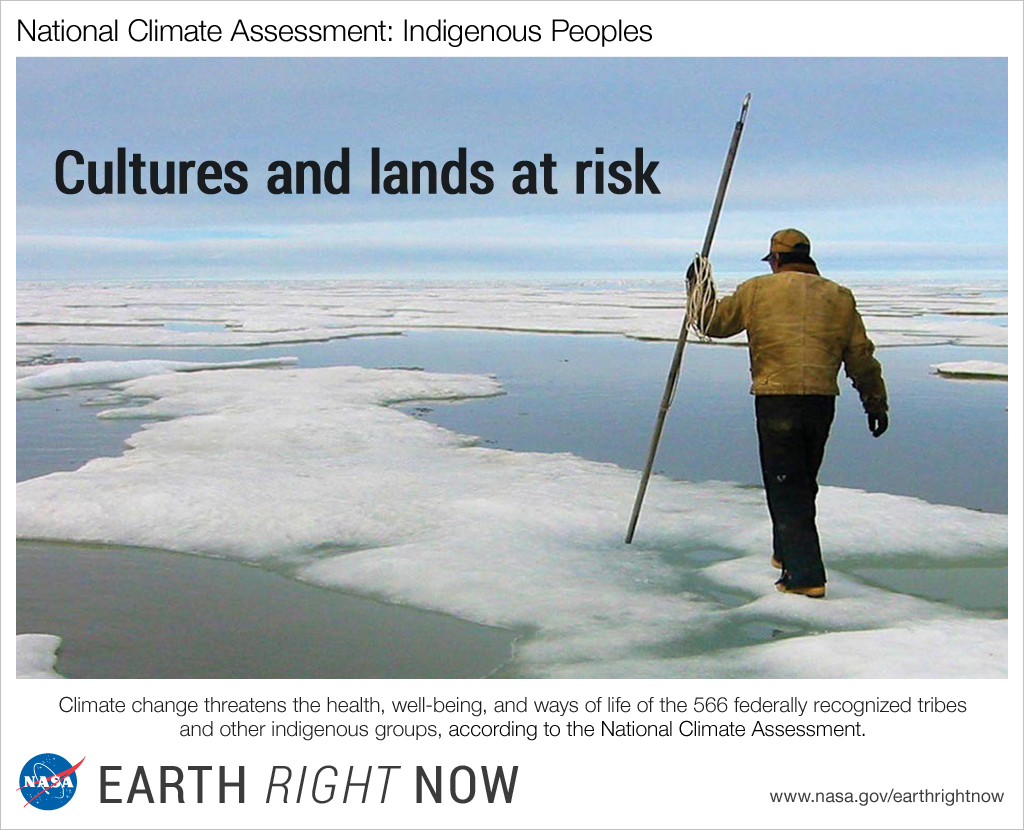 Climate change poses threats to indigenous peoples’ health, well-being, and ways of life, according to the Third U.S. National Climate Assessment released this week. As climate change continues to impact their lands and resources, indigenous communities are vulnerable to food insecurity, changing water availability, potential relocation from historic homelands, and the loss of livelihoods and traditional knowledge. NASA's Innovations in Climate Education-Tribal activity engages students with NASA Earth observation data and Earth system models and provides climate-related research experiences for teachers, undergraduate and graduate students, particularly in the community of Tribal Colleges and Universities. The Tribal College and University Experiential Learning Opportunity program supports NASA's goal of engaging tribal communities in science, technology, engineering and mathematics disciplines, and focuses on inspiring the next generation of explorers. To learn more about NASA's education programs, visit: To learn more about National Climate Assessment findings related to the impacts of climate change on indigenous communities, visit: To learn more about other NASA missions that contribute to understanding climate change, visit: To learn more about NASA's Earth science activities in 2014, visit